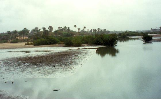 River south of Fajara, Near Kotu beach